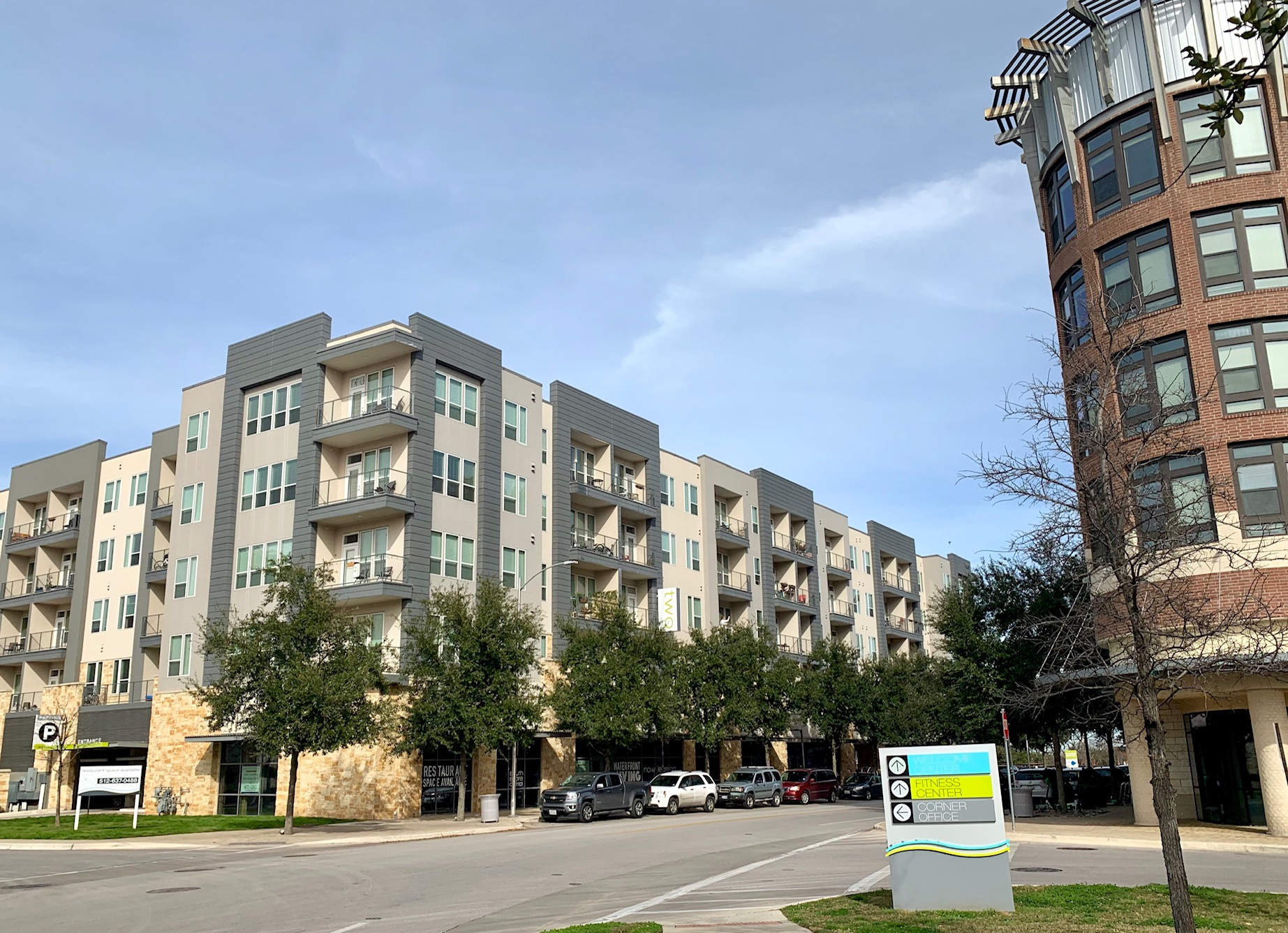 This is a picture of apartments buildings in Austin, Texas.